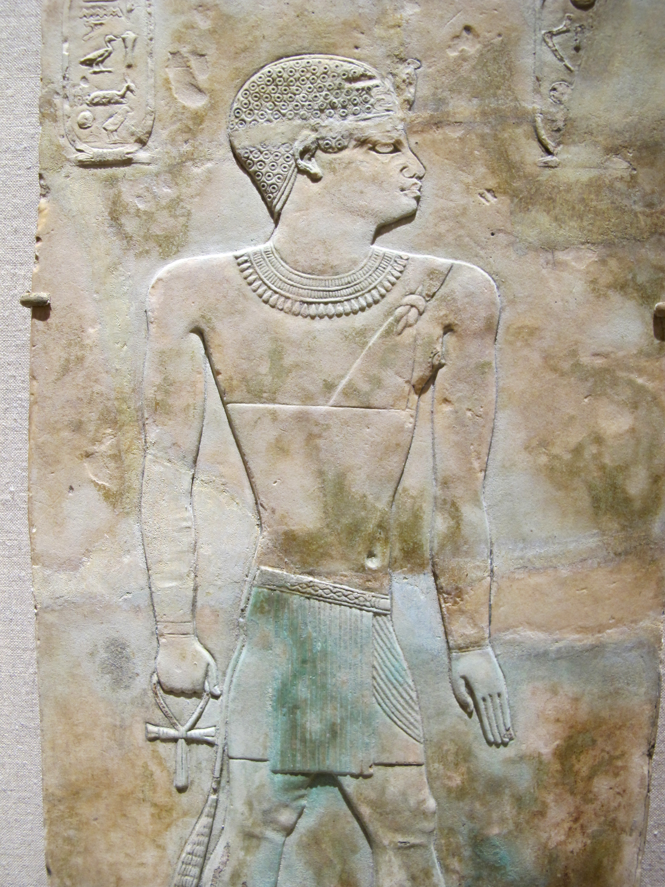 Egyptian antiquities in the Brooklyn Museum